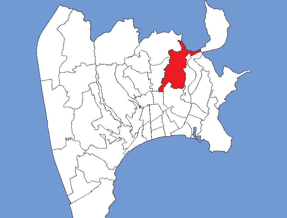 Location of the neighbourhood Rimiez in Nice